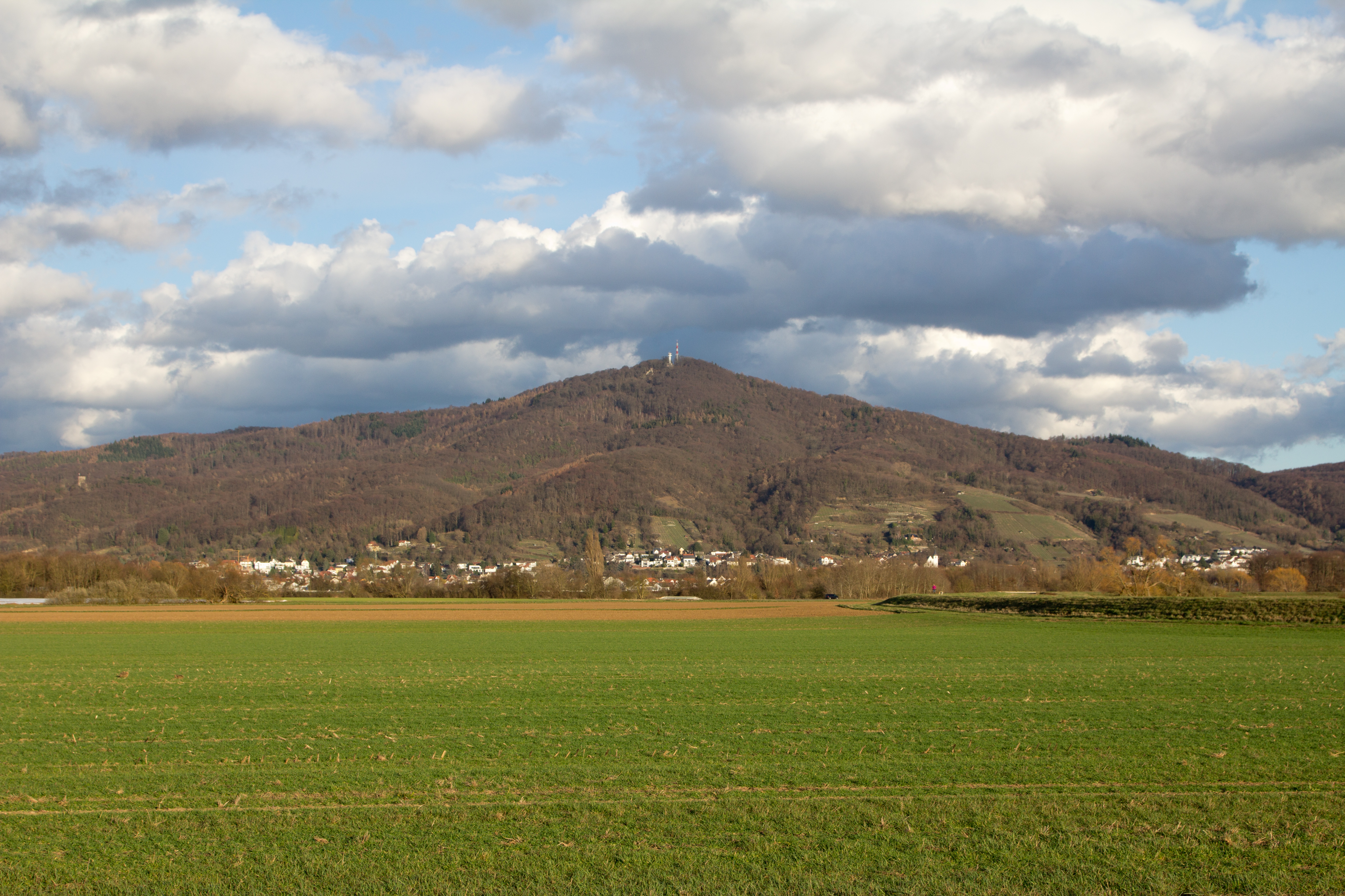 The Melibokus in the Odenwald